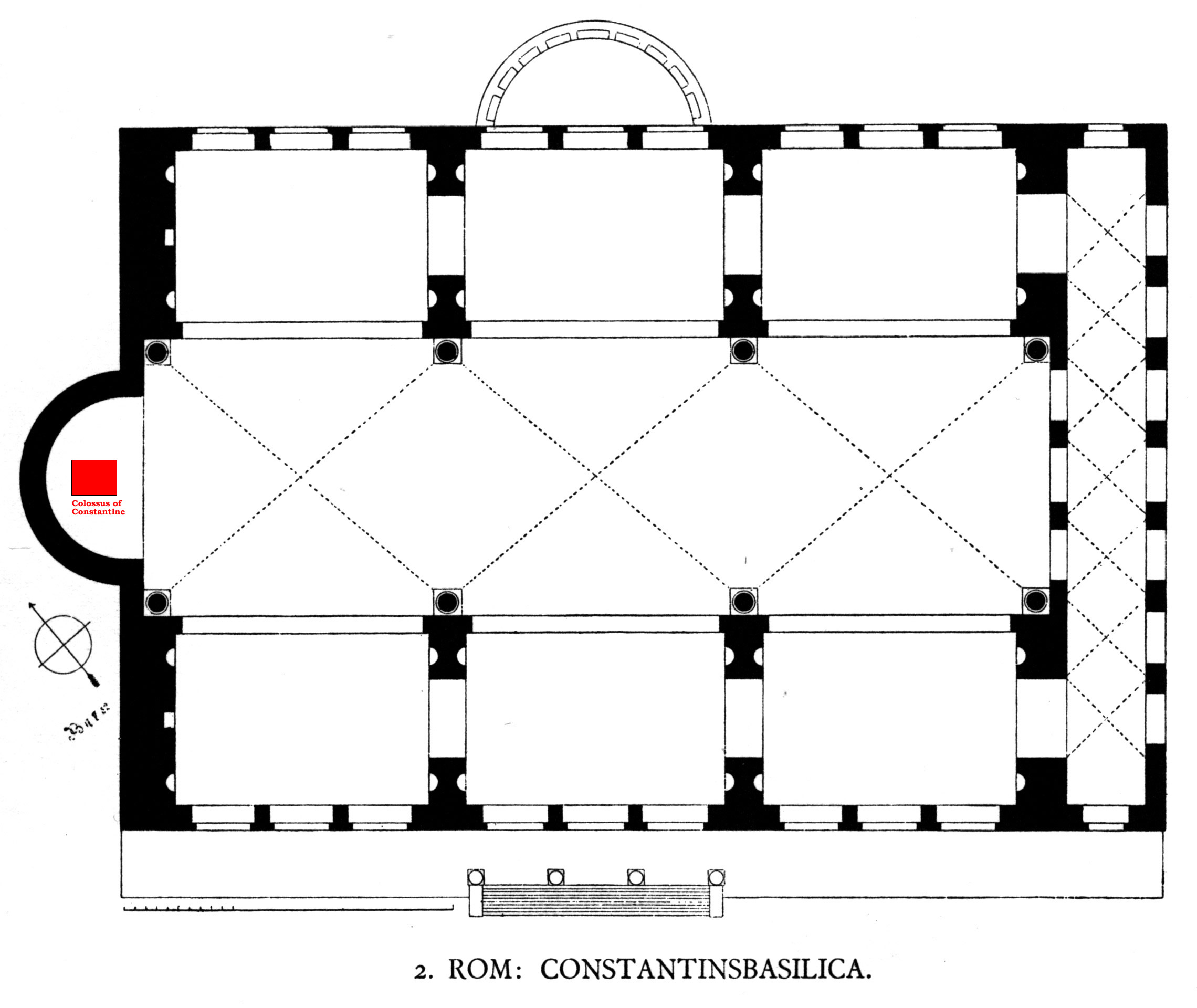 Rome, Basilica of Maxentius (also known as Basilica of Constantine and Basilica Nova). Reconstruction of floor plan, location of the Colossus of Constantine highlighted.